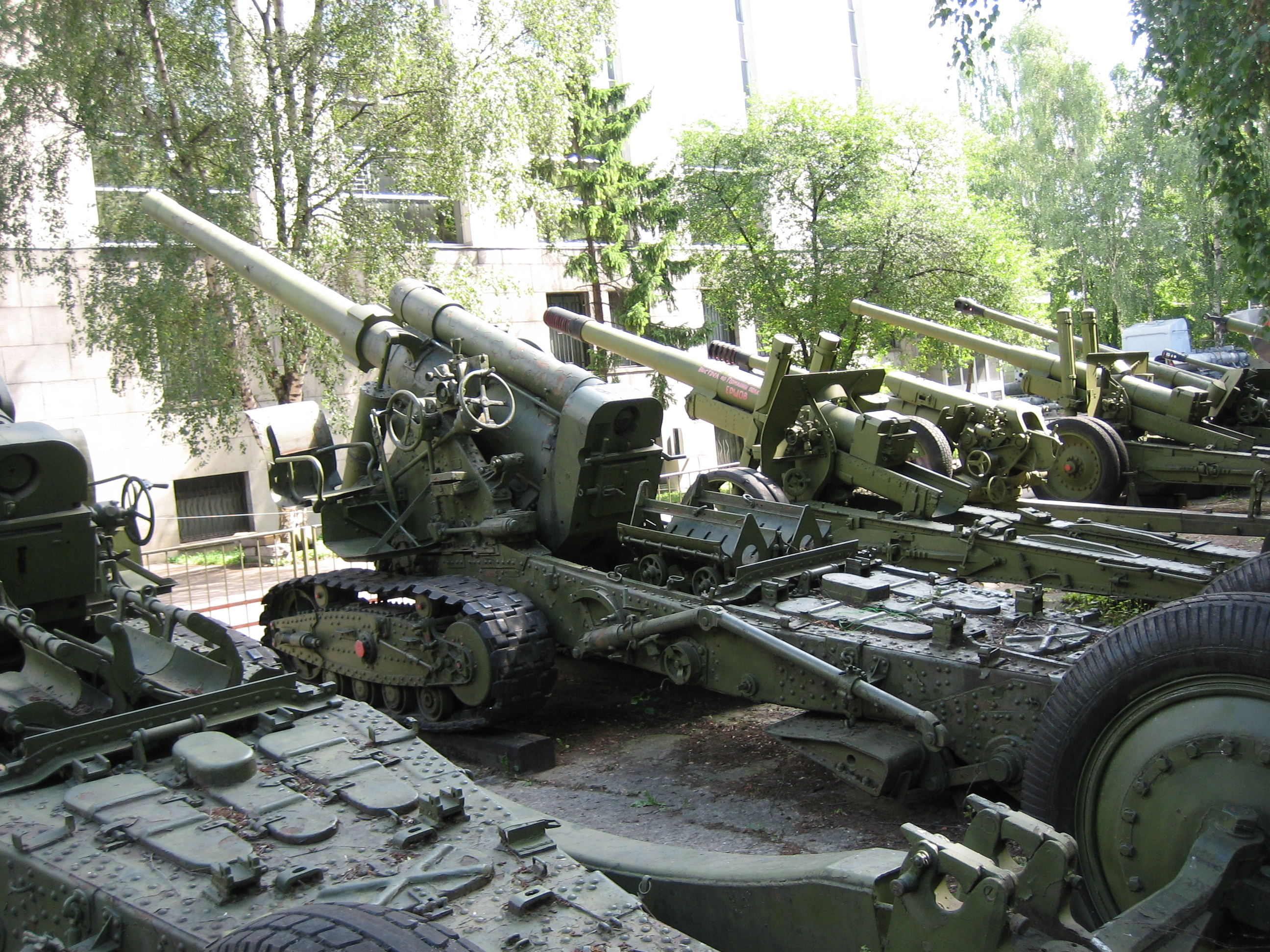 Soviet 152mm Br-2 Mark 1935 gun, displayed in Moscow Military Museum. Photo taken on 19 July, 2007. Source: Photo by me, User:Saiga20K.